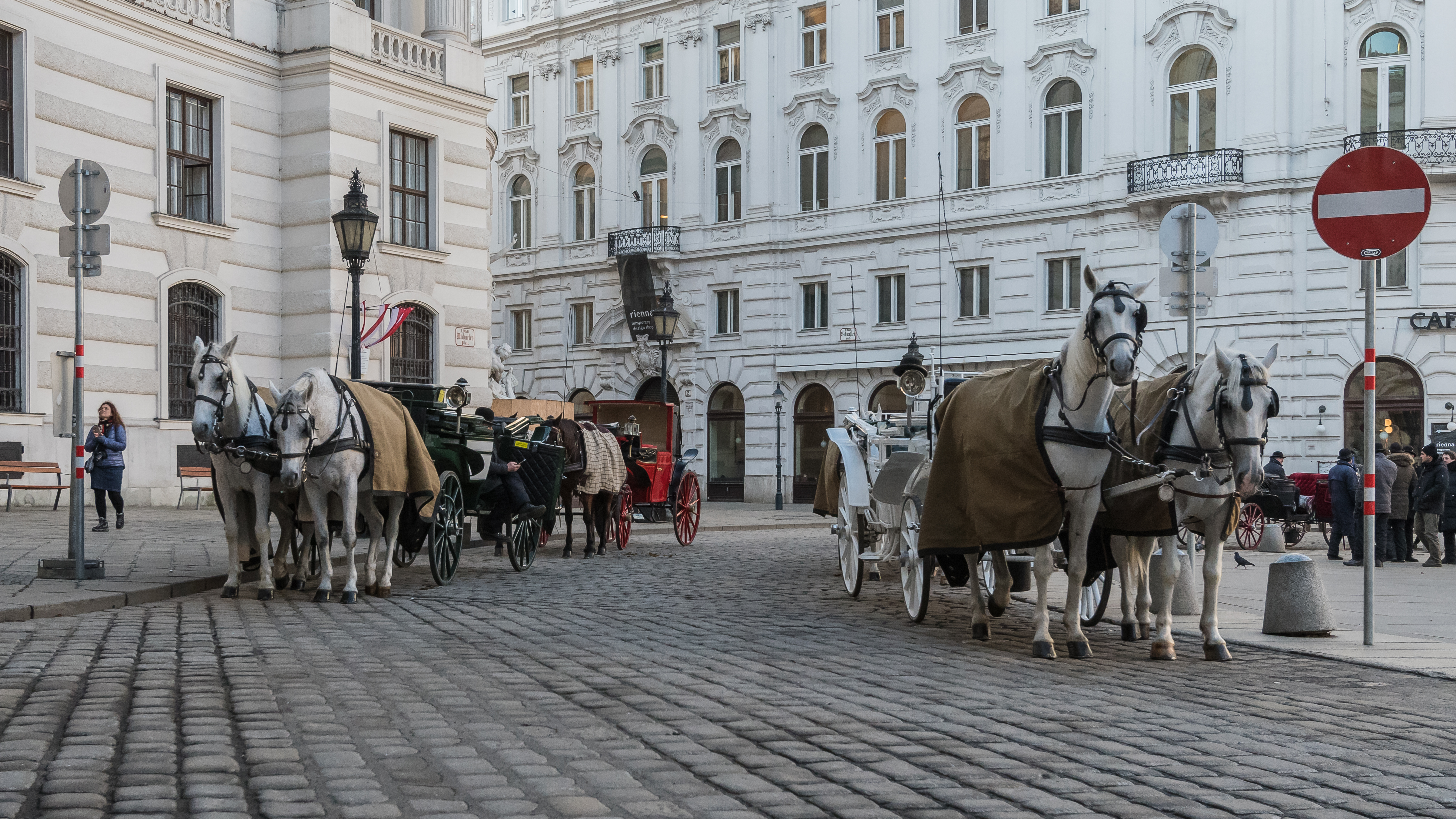 Fiaker waiting for clients on Michaelerplatz, Vienna